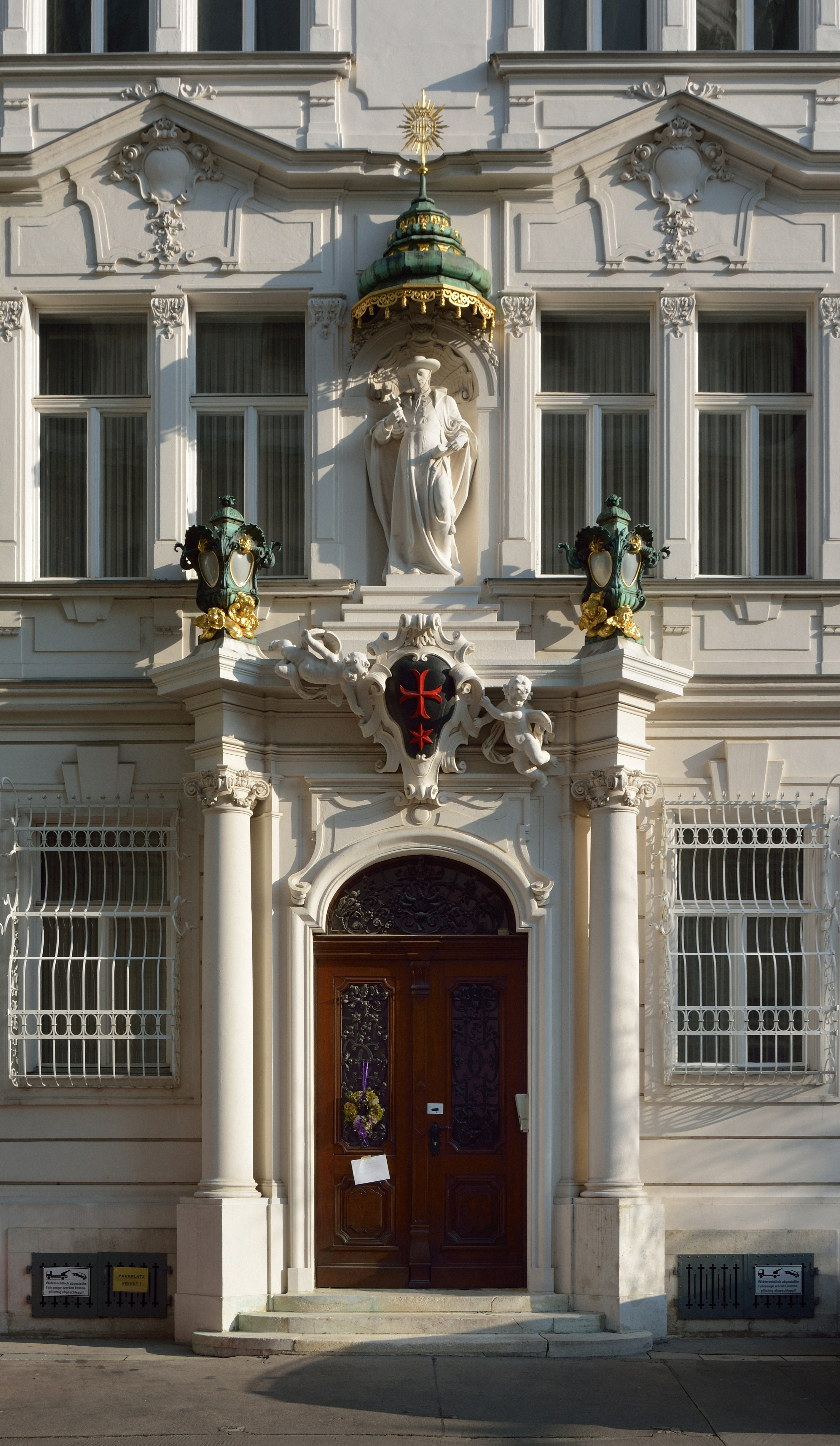 House of the Knights of the Cross with the Red Star, portal, Kreuzherrengasse 1, 4th district of Vienna